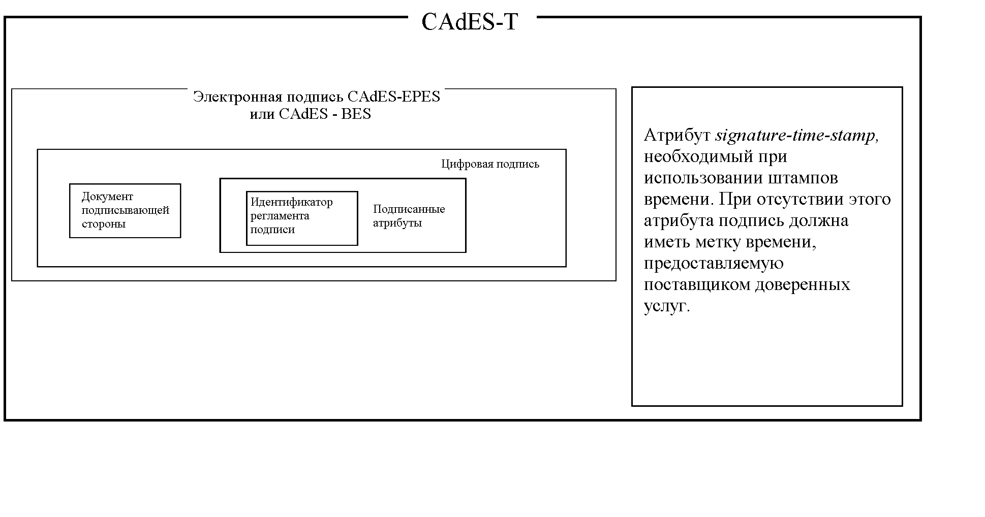 CAdES-T illustration